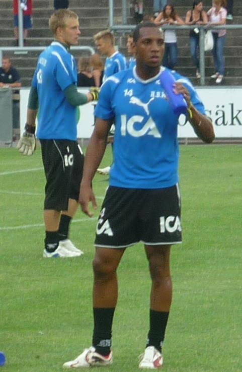 Karl-Johan Johnsson (background) and Anselmo (front) in 2010